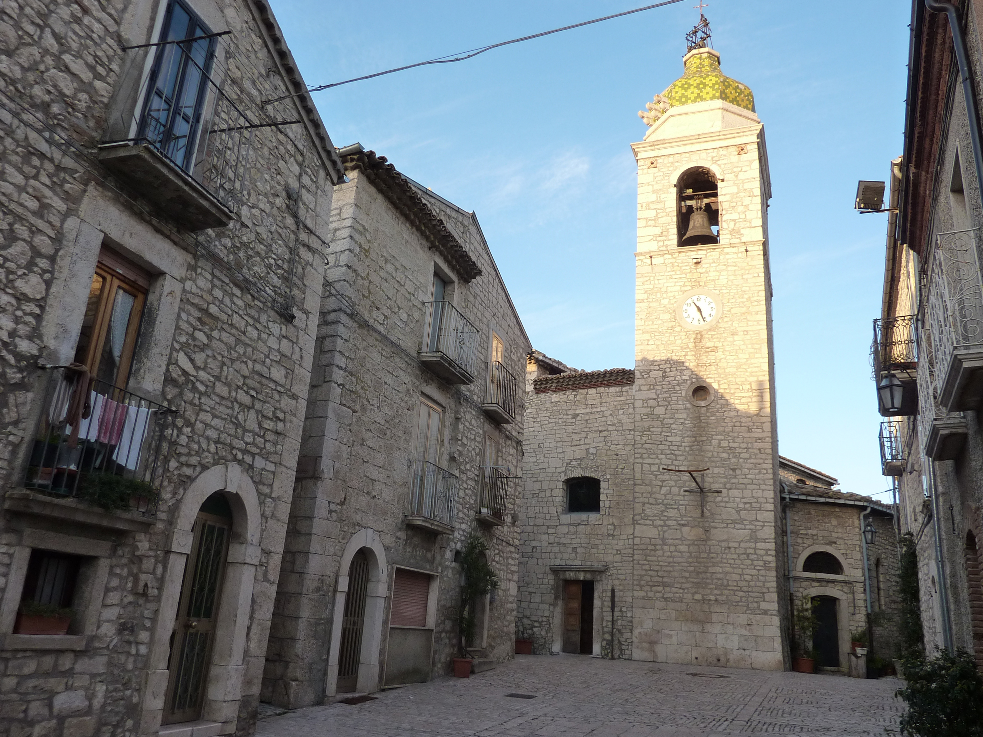 Oratino: Church of Santa Maria Assunta